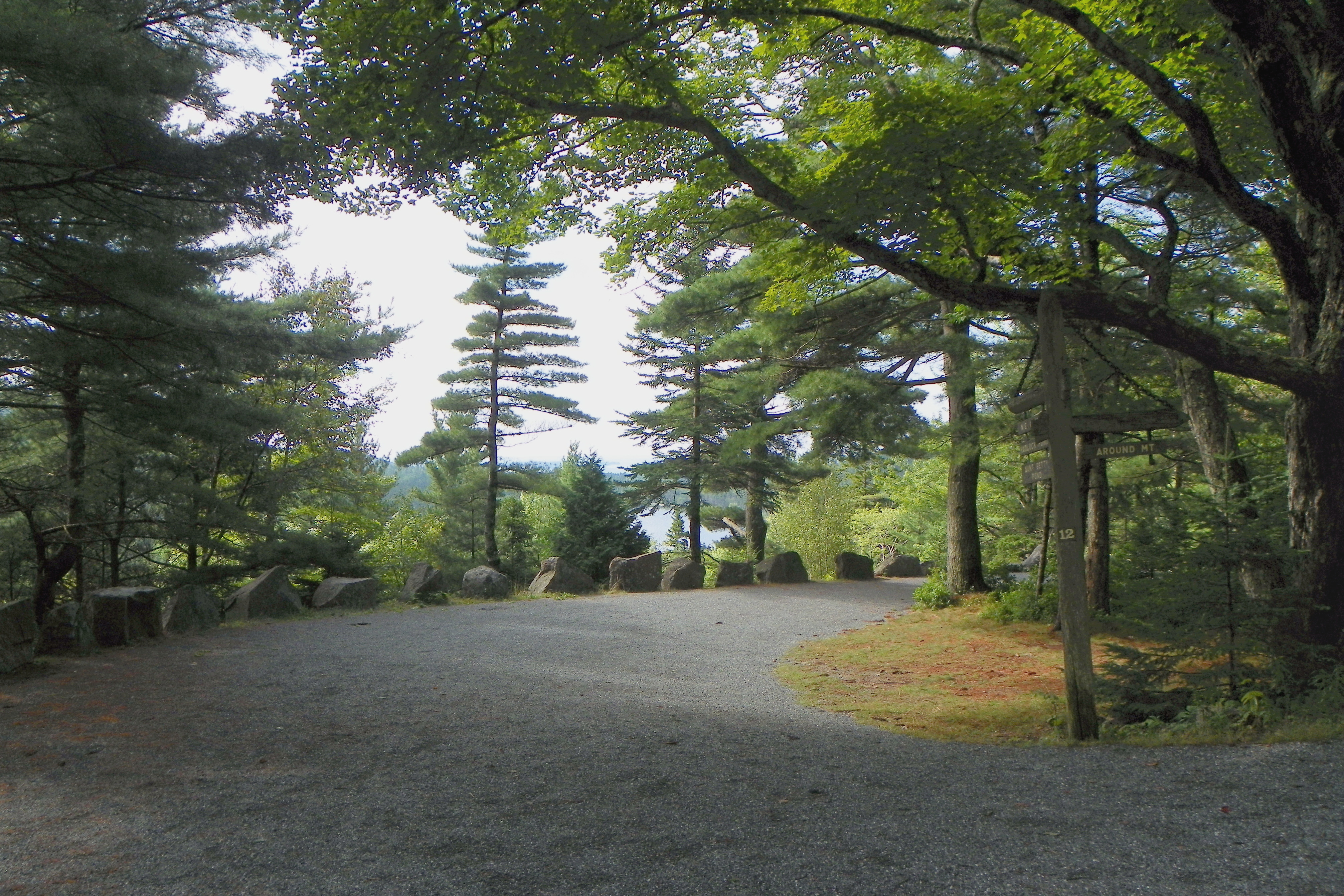 A carriage path in Acadia National Park